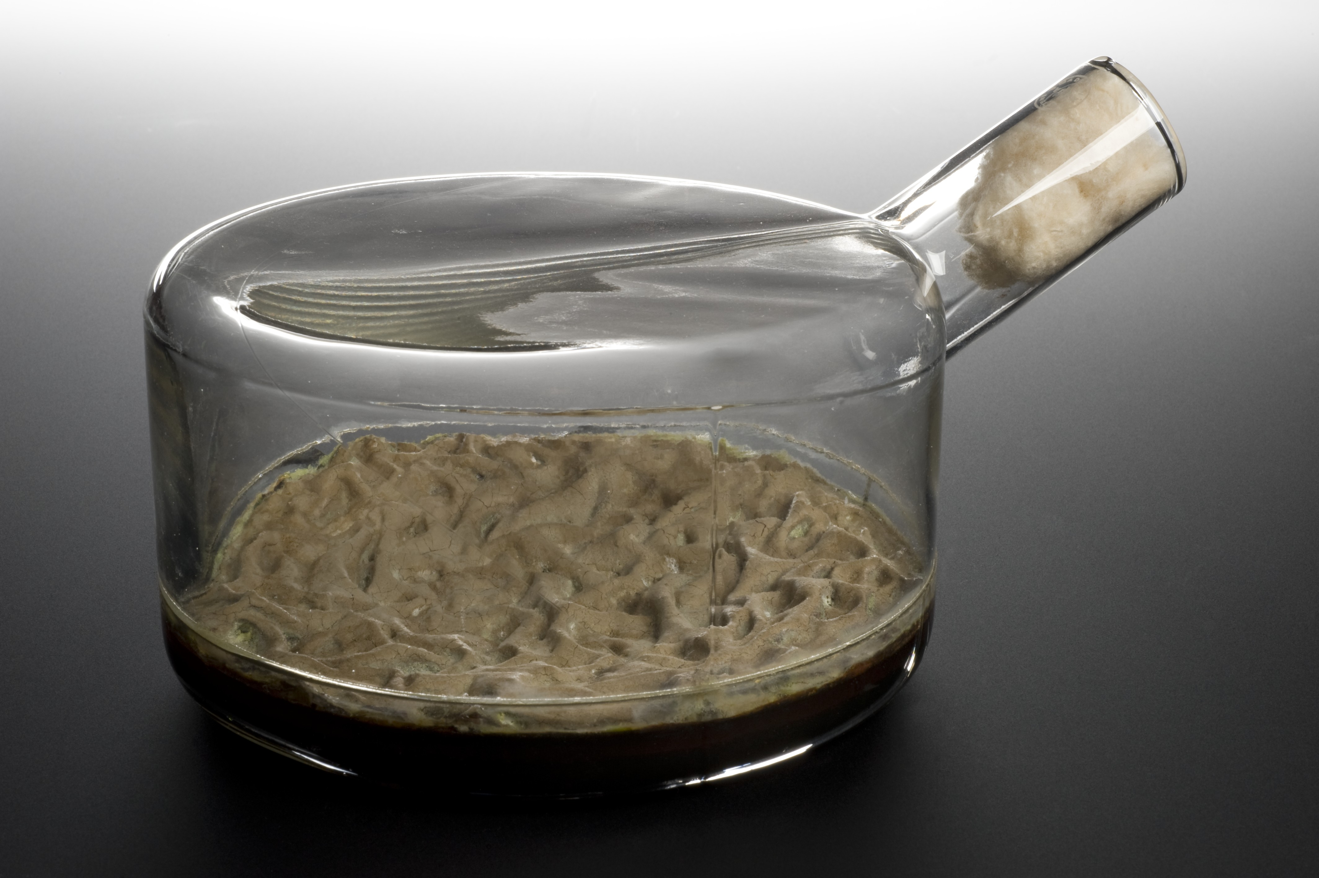 Penicillin fermentation vessel, England, 1940-1945 Thousands of glass fermentation vessels like this one were used in Glaxo (now GlaxoSmithKline) laboratories to produce penicillin. The penicillium mould was grown on the surface of a liquid filled with all the nutrients it needed. This approach was superseded by the method of growing the mould within large industrial fermenters. The antibiotic was first used in the early 1940s and saved the lives of many soldiers during the Second World War. Medical Photographic Library